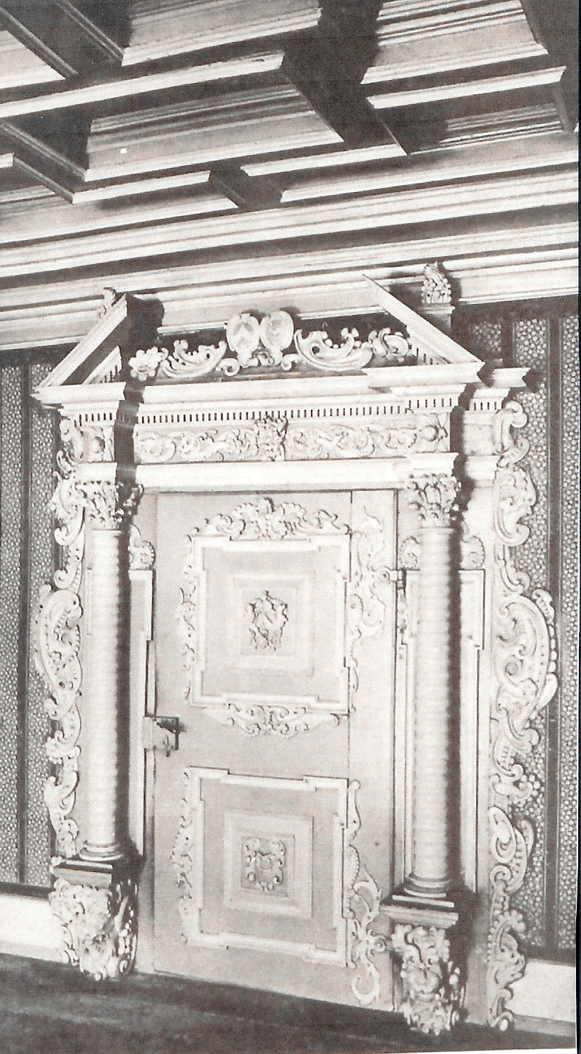 Innenseite der Eingangstür zum Repäsentationssal im Haus zum Wilden Mann in Waldshut am Hochrhein